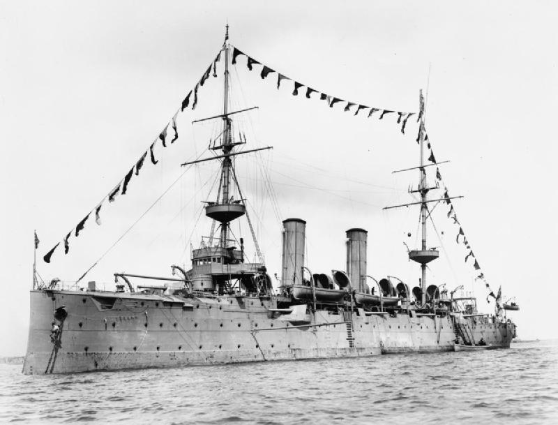 Photograph of British Eclipse class protected cruiser HMS Venus.